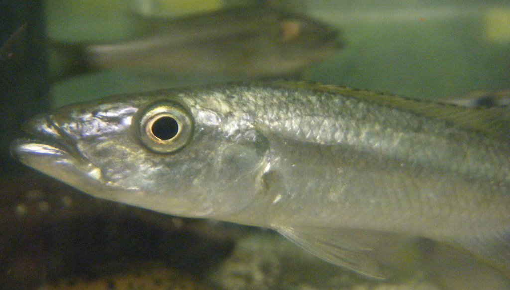 Rhamphochromis sp. "Chilingali", wild caught from Lake Chilingali